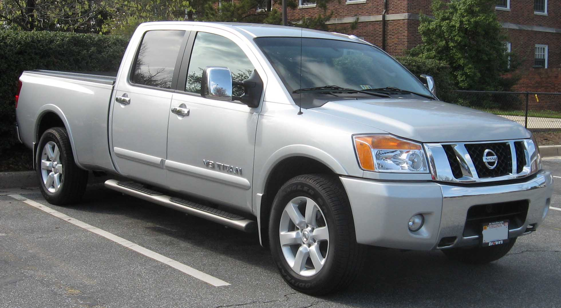 2008 Nissan Titan photographed in College Park, Maryland, USA.